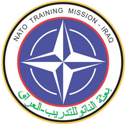 NTMI logo